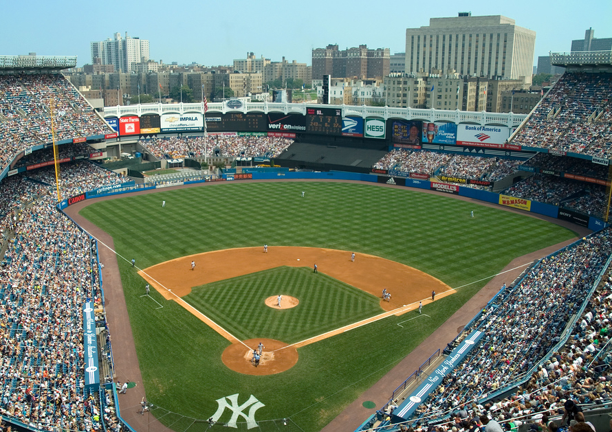 Yankee Stadium, after Alex Rodriguez hit his 500th home run. Taken on August 3, 2007